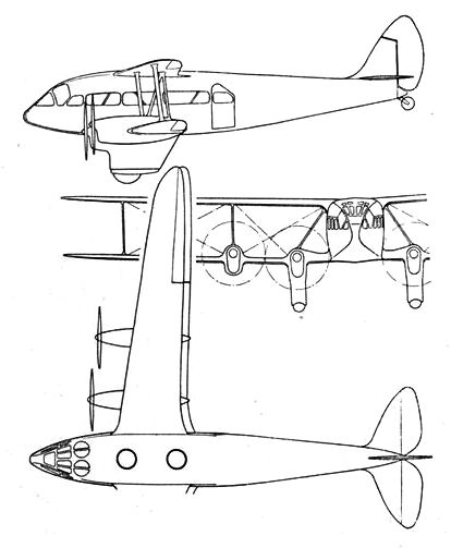 De Havilland DH 86 Express 3-view drawing from L'Aerophile March 1934